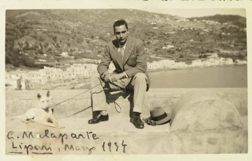 Curzio Malaparte in internal exile in Lipari